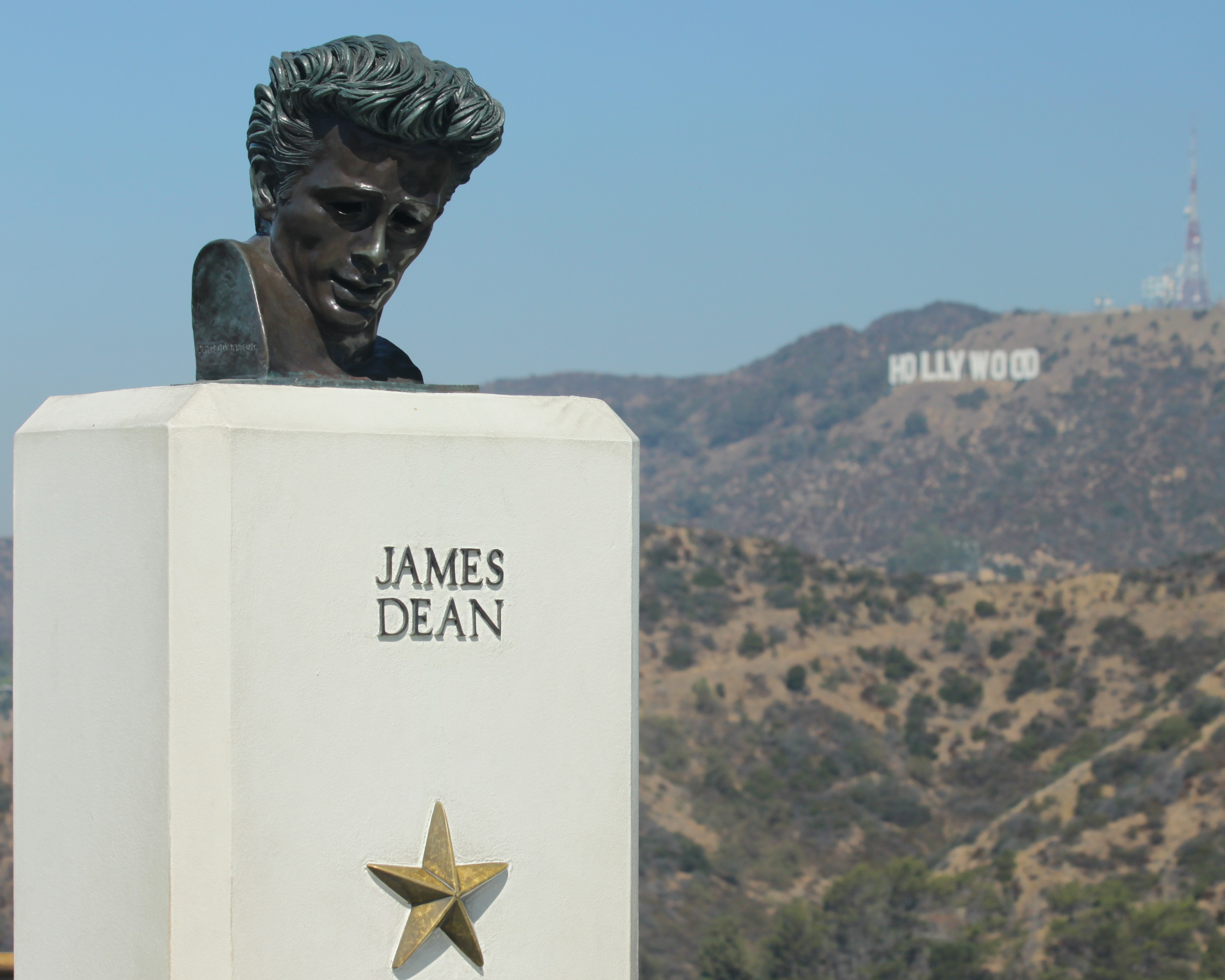 Taken at Griffith Park ~ with Hollywood Sign on top of the hill as a background